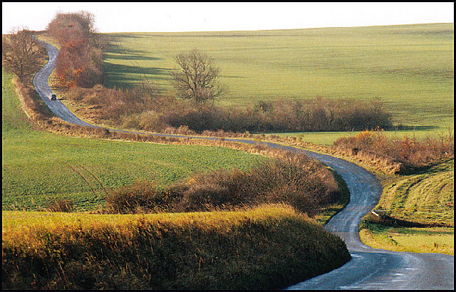 Wolds road. A road winding its way south to Rucklands from Haugham